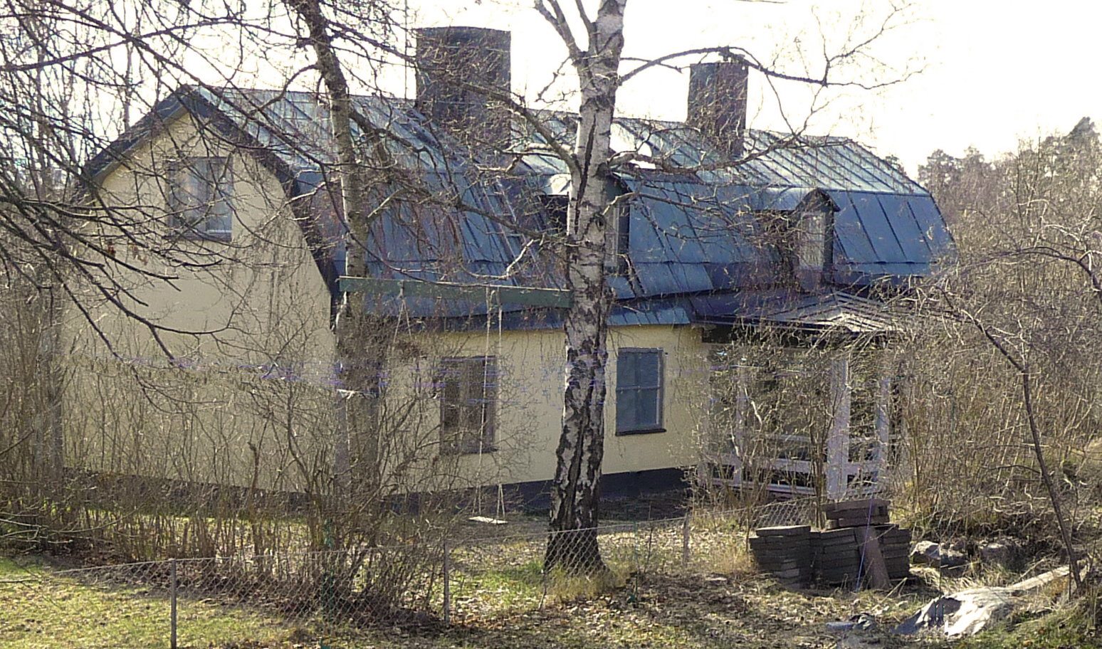 Last remaining house of earlier village Stora Flysta in Stockholm, Sweden.